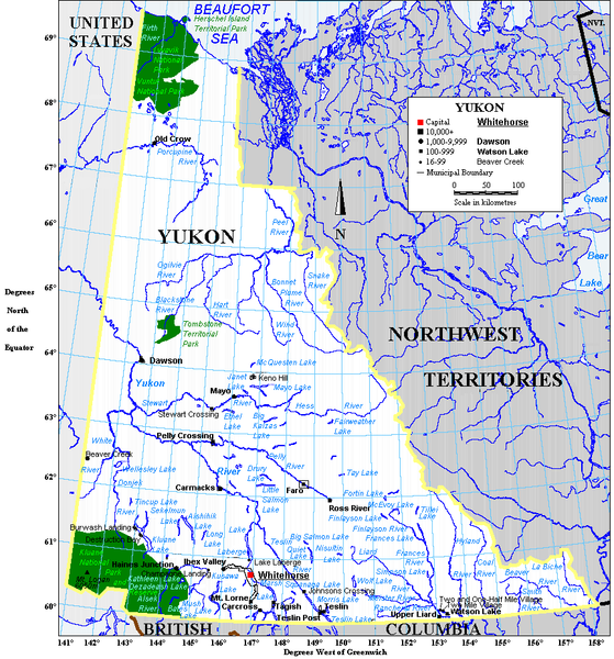 Map of the Yukon my creation